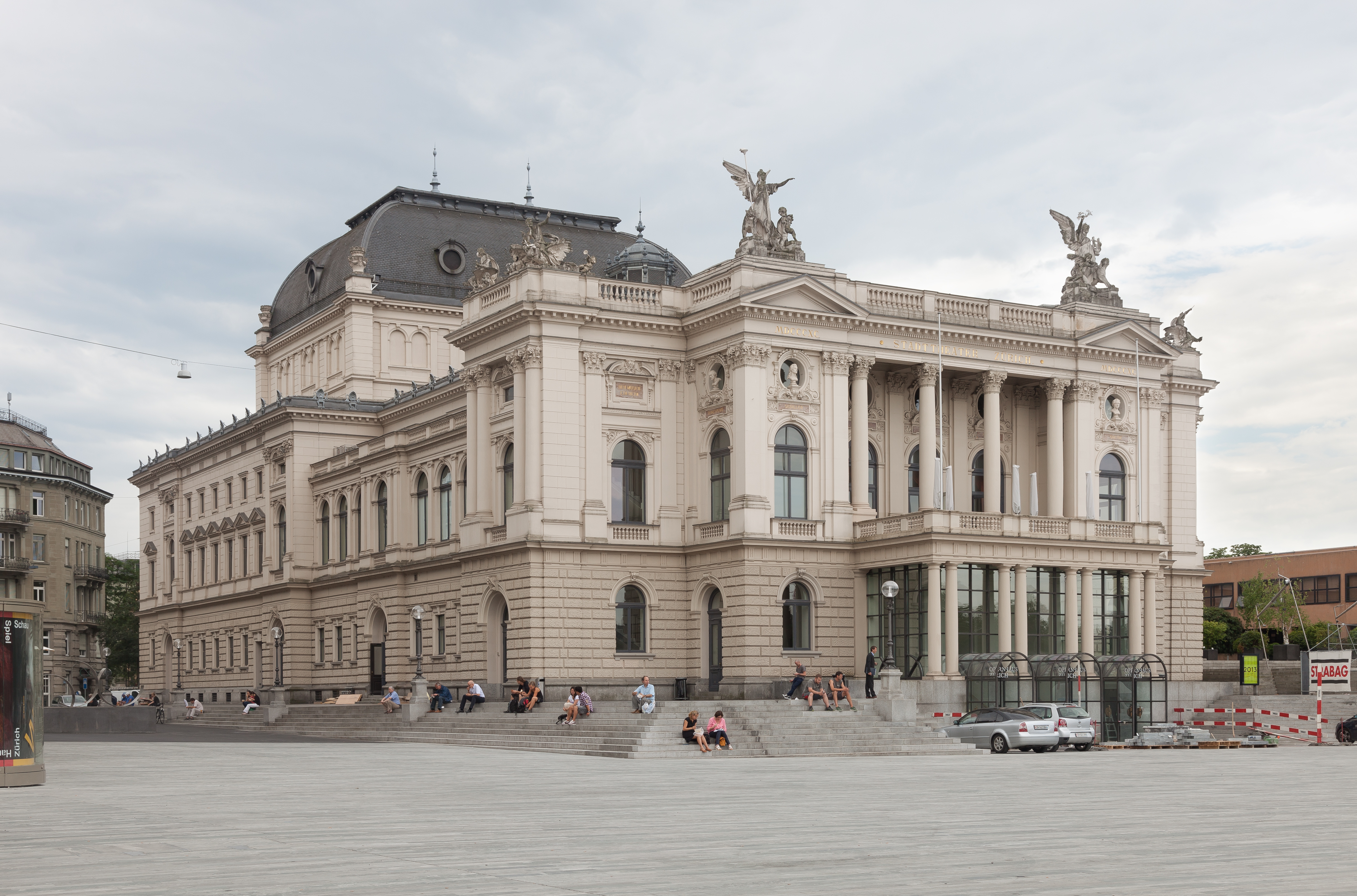 Zurich Opera